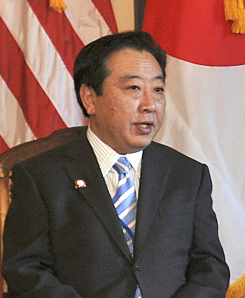 On Friday, April 15, 2011, Secretary Geithner met with Japanese Finance Minister Yoshihiko Noda at Treasury.